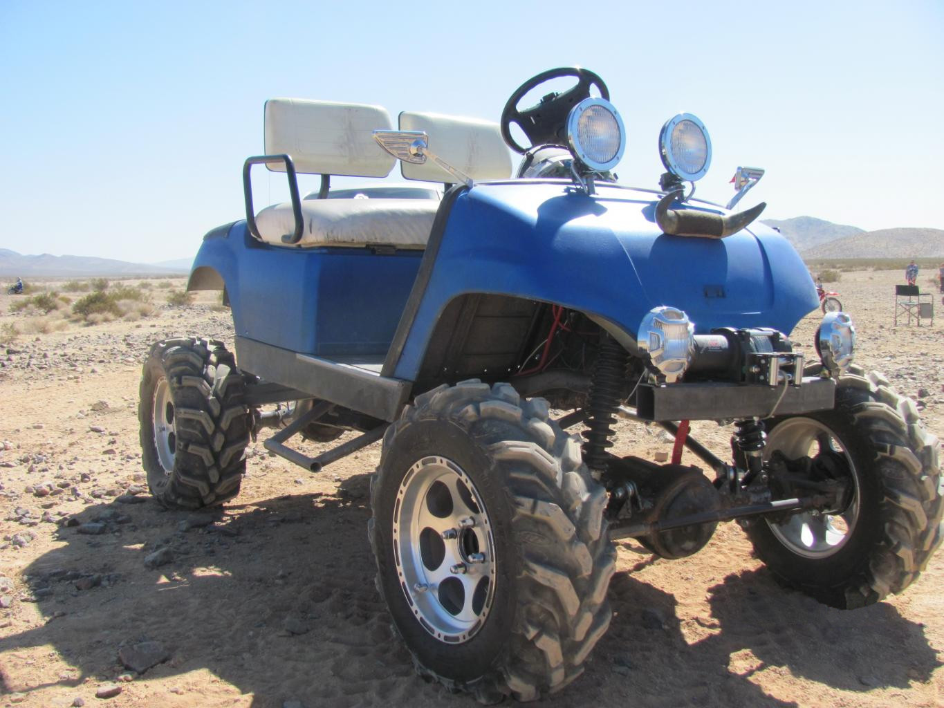 Extreme off road golf cart